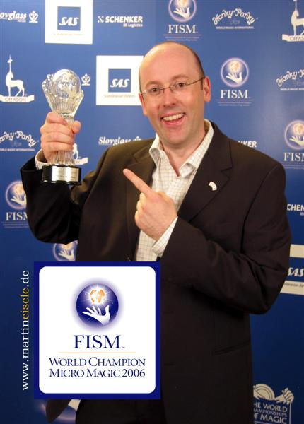 Martin Eisele holding the Micro Magic Worldchampion Trophy in his hands.